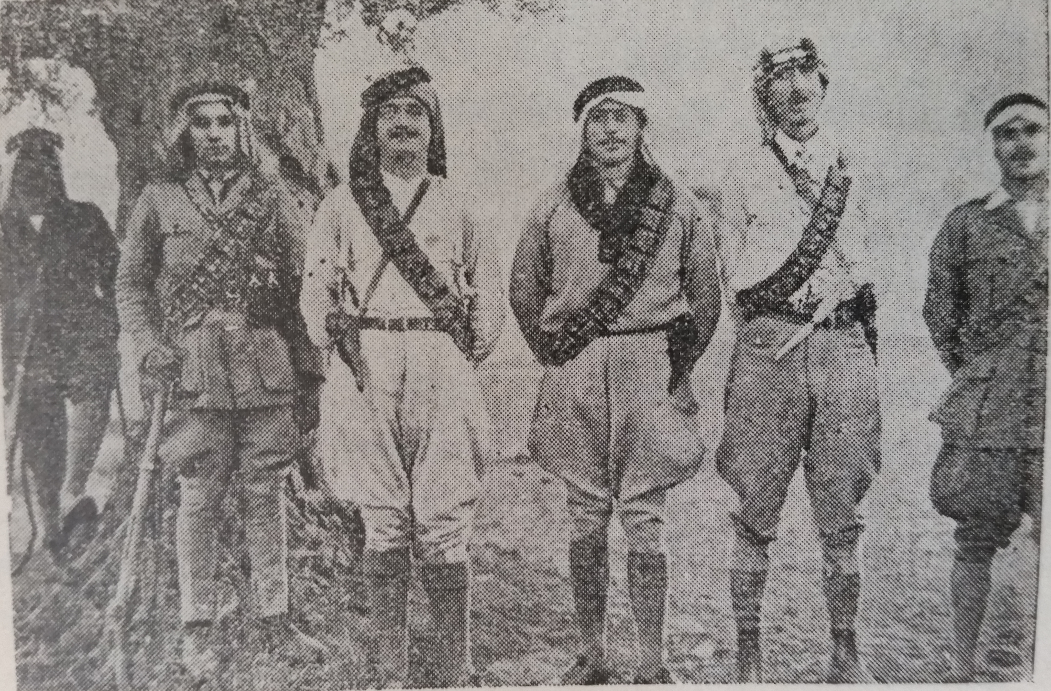 Under the photo, the caption says (in Hebrew): "Commanders of Gangs, 1936. From right to left: Jassem 'Ali (commander of the Iraqi squad), Fakhri 'Abd-al-Hadi (commander of the Palestinian squad), Fawzi Qawuqji, Muhamad Ssa'ab (commander of the Druz squad), bodyguards."